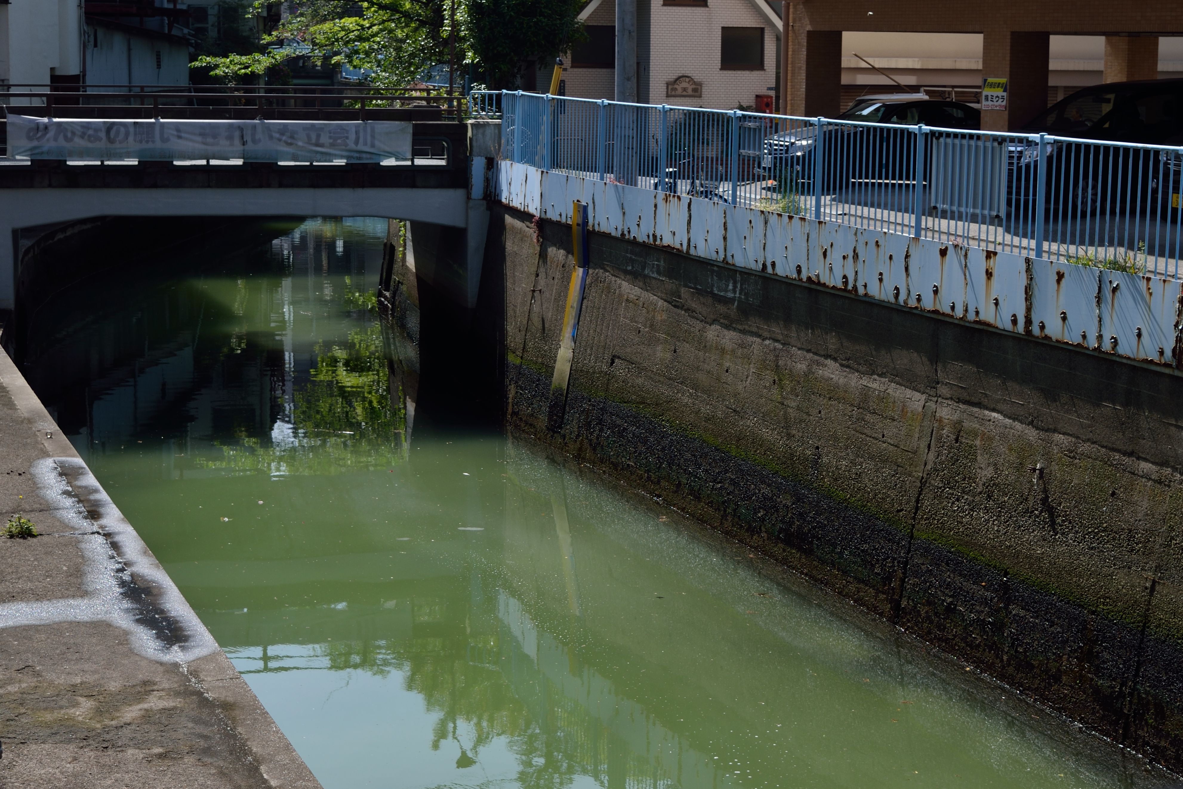 Tachiai River at Shinagawa, Tokyo.